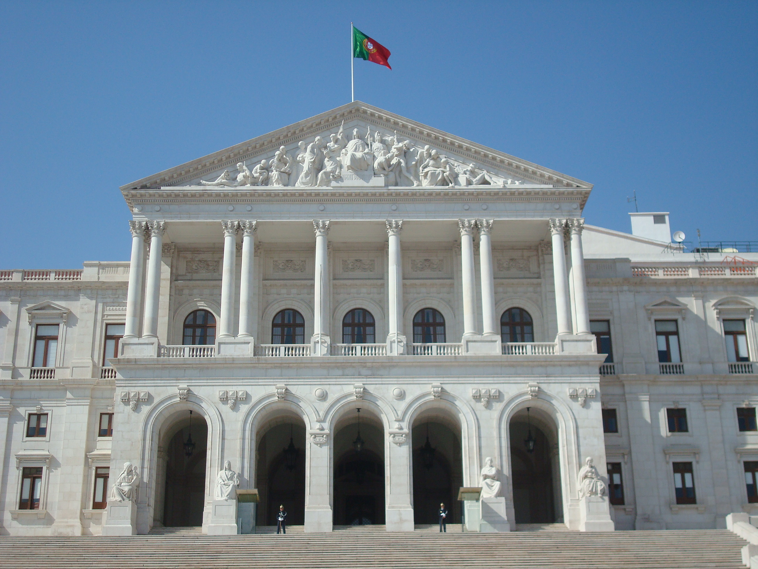 Portuguese Parliament building front fachade.